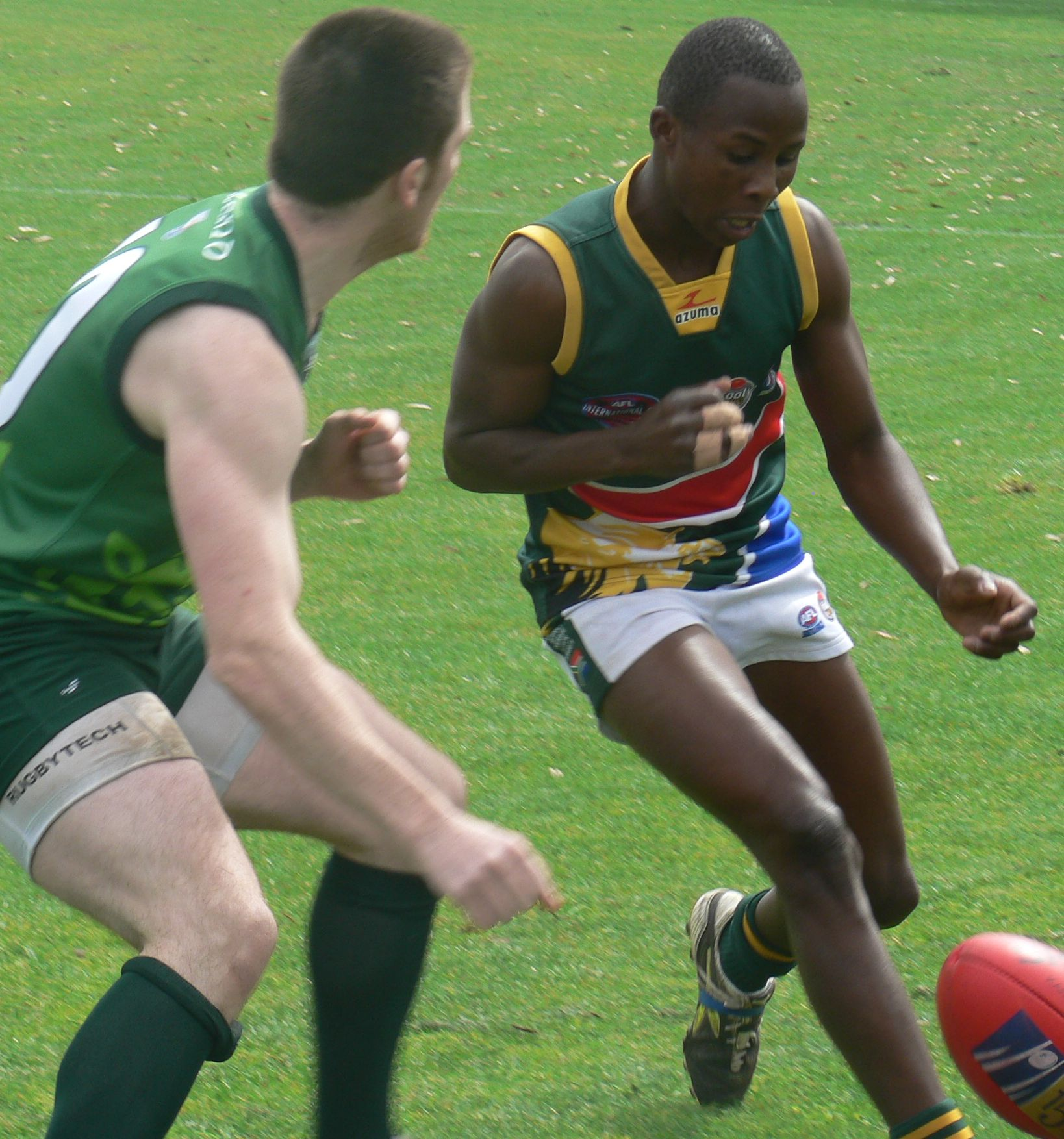 Players from South Africa and Ireland attempt to bump each other off the ball from the 2008 Australian Football International Cup